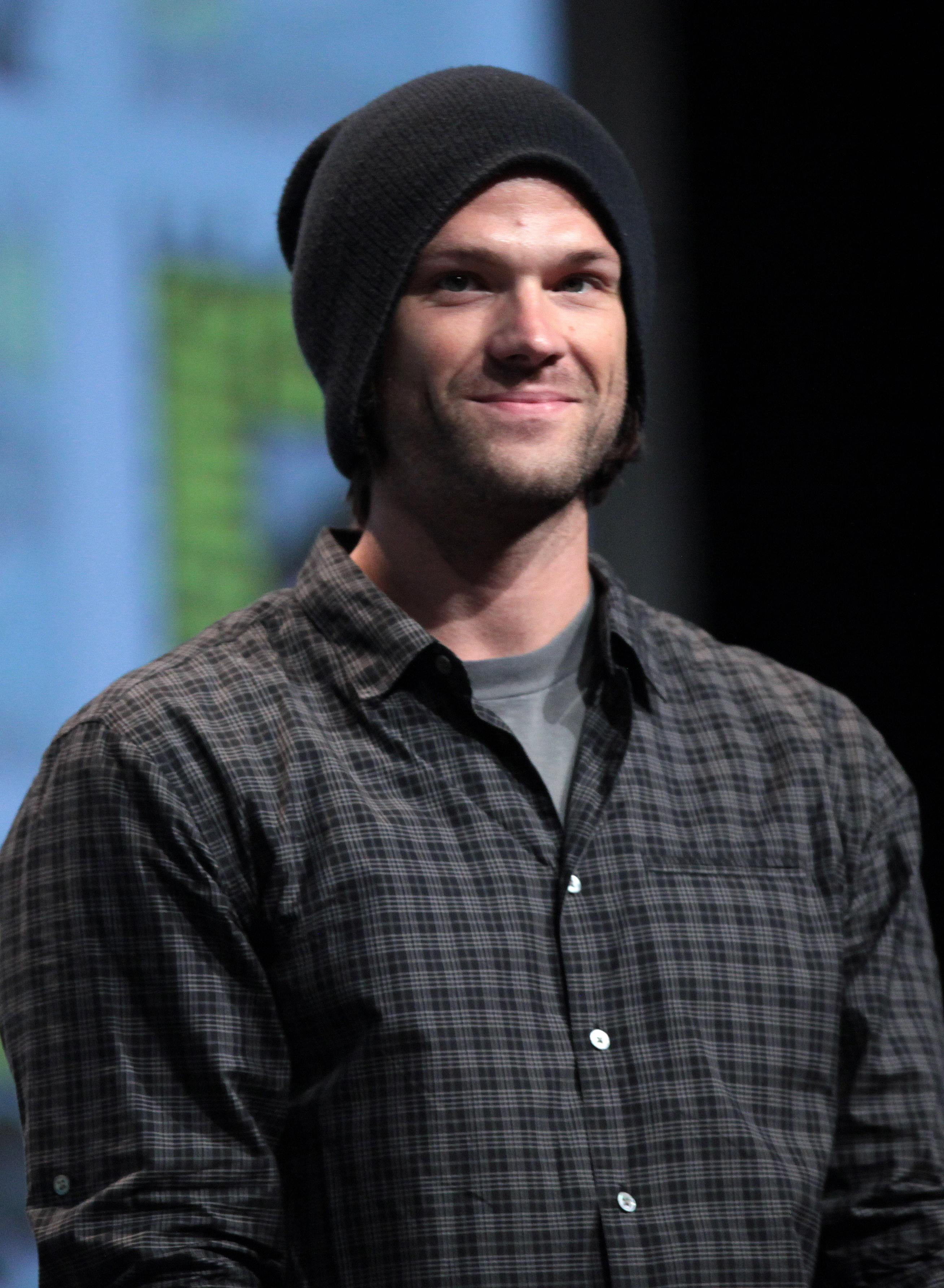 Jared Padalecki at the 2015 San Diego Comic Con International in San Diego, California.